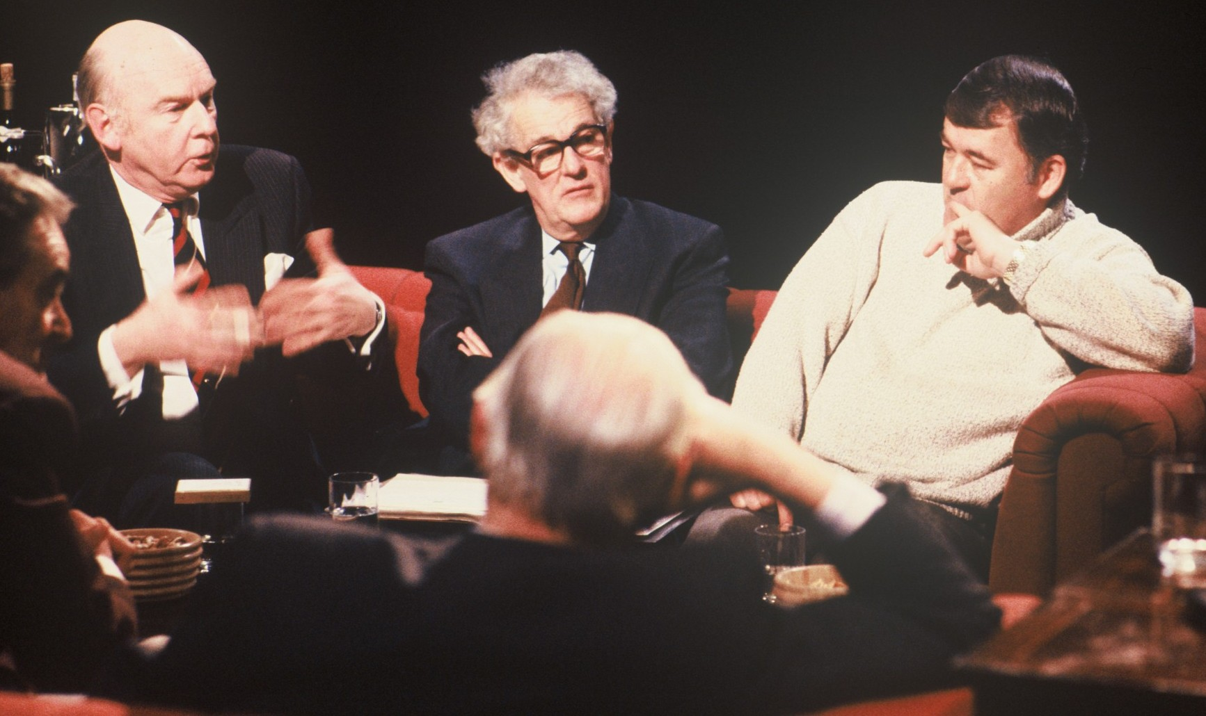 After Dark on 12 January 1991, showing the episode "Arms and the Gulf" with guests Robert Jarman (left), Tam Dalyell (centre), Bruce Hemmings (right) and also James Lunt, Joey Martyn–Martin, Adel Darwish and Rana Kabbani.